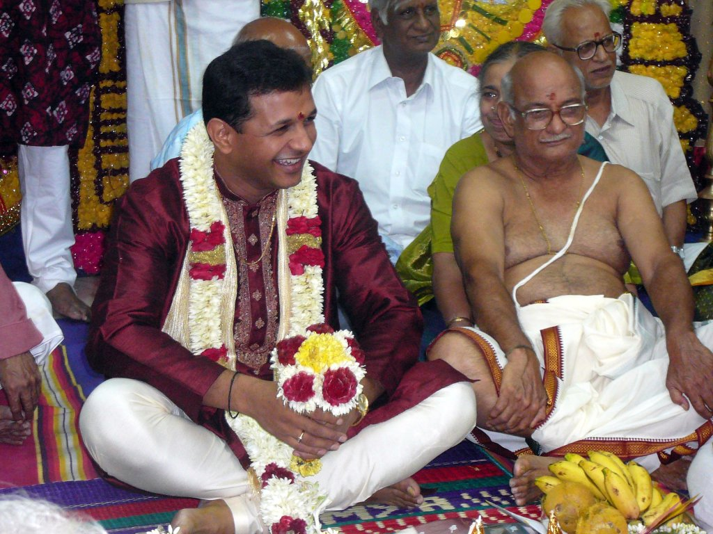 During a South Indian wedding: Groom dressed in a silk set, wearing a garland and holding a flower decoration, next to a man dressed in a veshti with a holy thread across his chest.